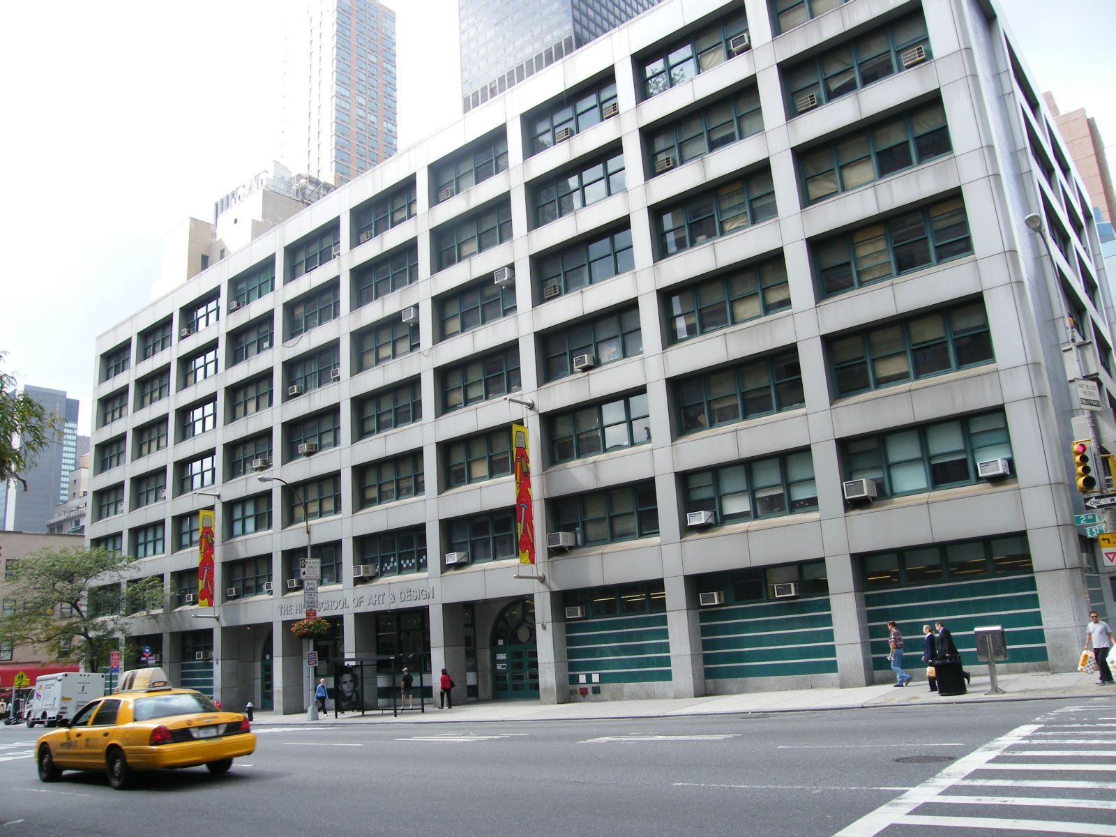 High School of Art and Design. Located in Midtown on 56th Street between 2nd and 3rd Avenues. This image shows the former building on Second Av, which closed in June 2012.